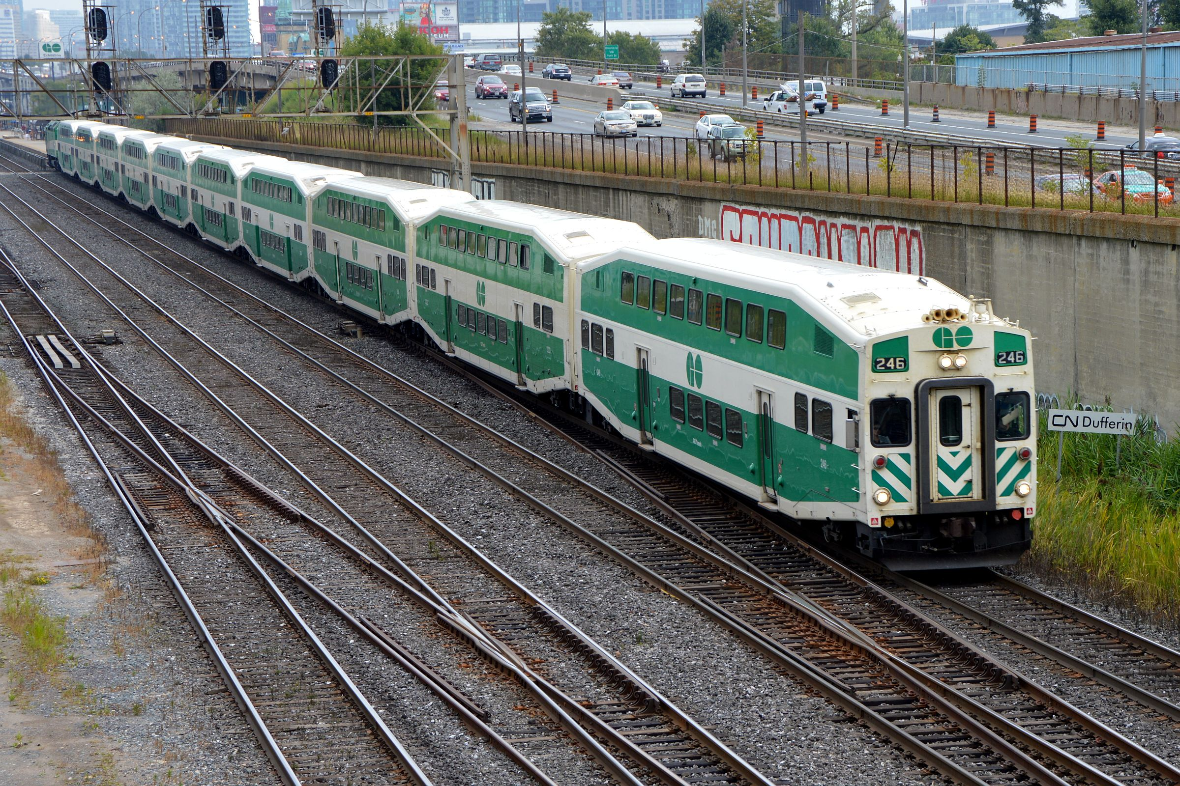 GO Train on the Lakeshore line approaching Dufferin Street. The train has just left Exhibition GO Station in the background.